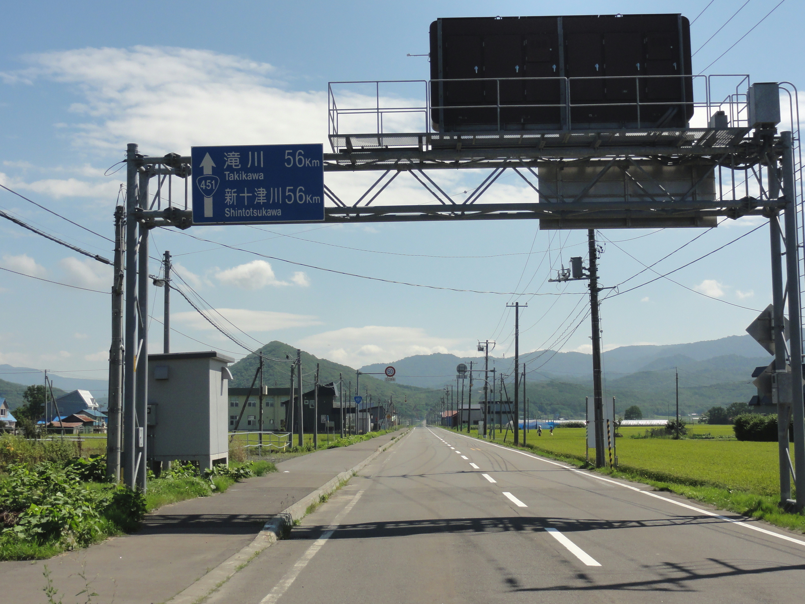 Japan National Route 451 (Ishikari, Hokkaidō)